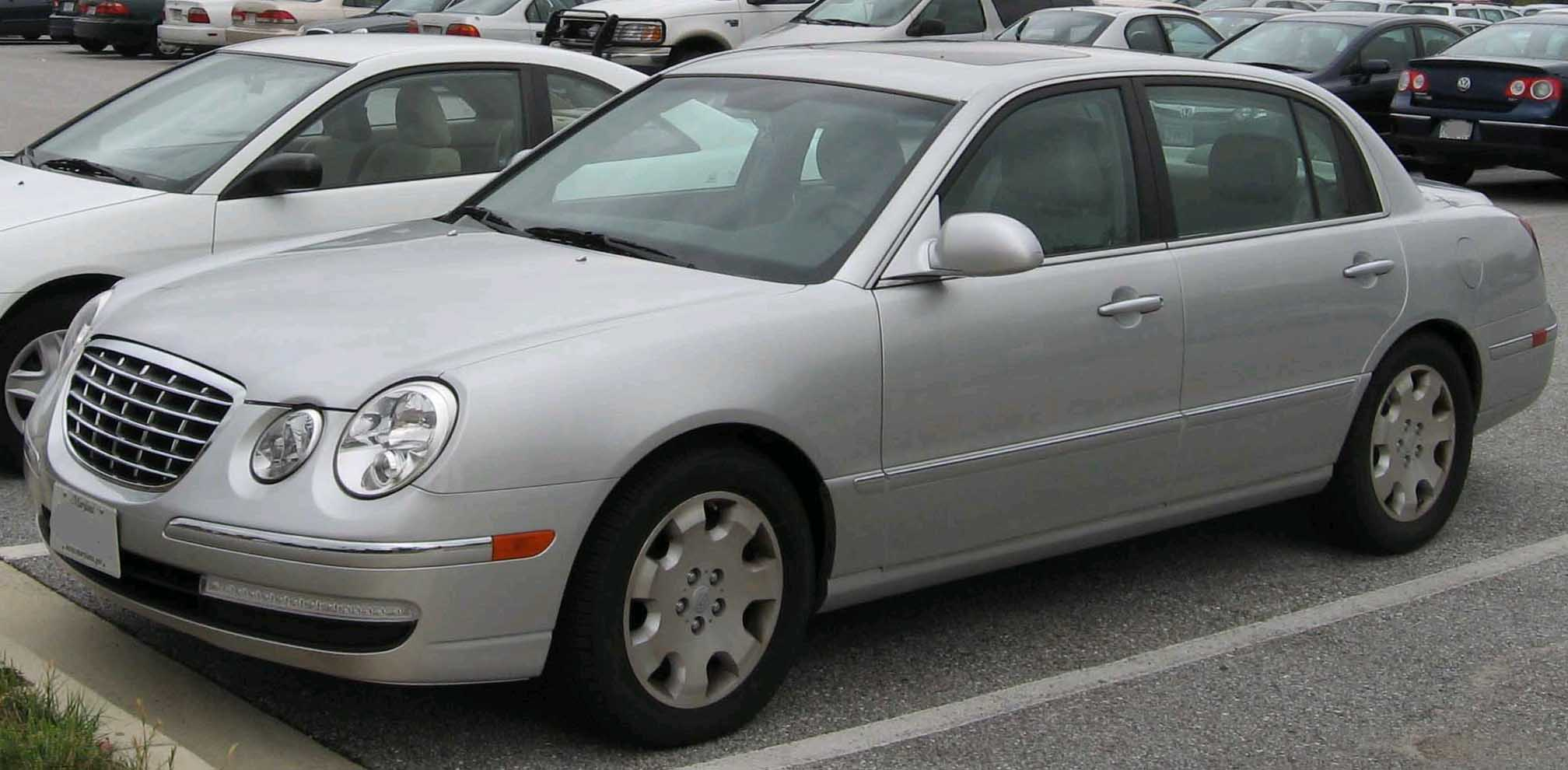 2007 Kia Amanti photographed in College Park, Maryland, USA.